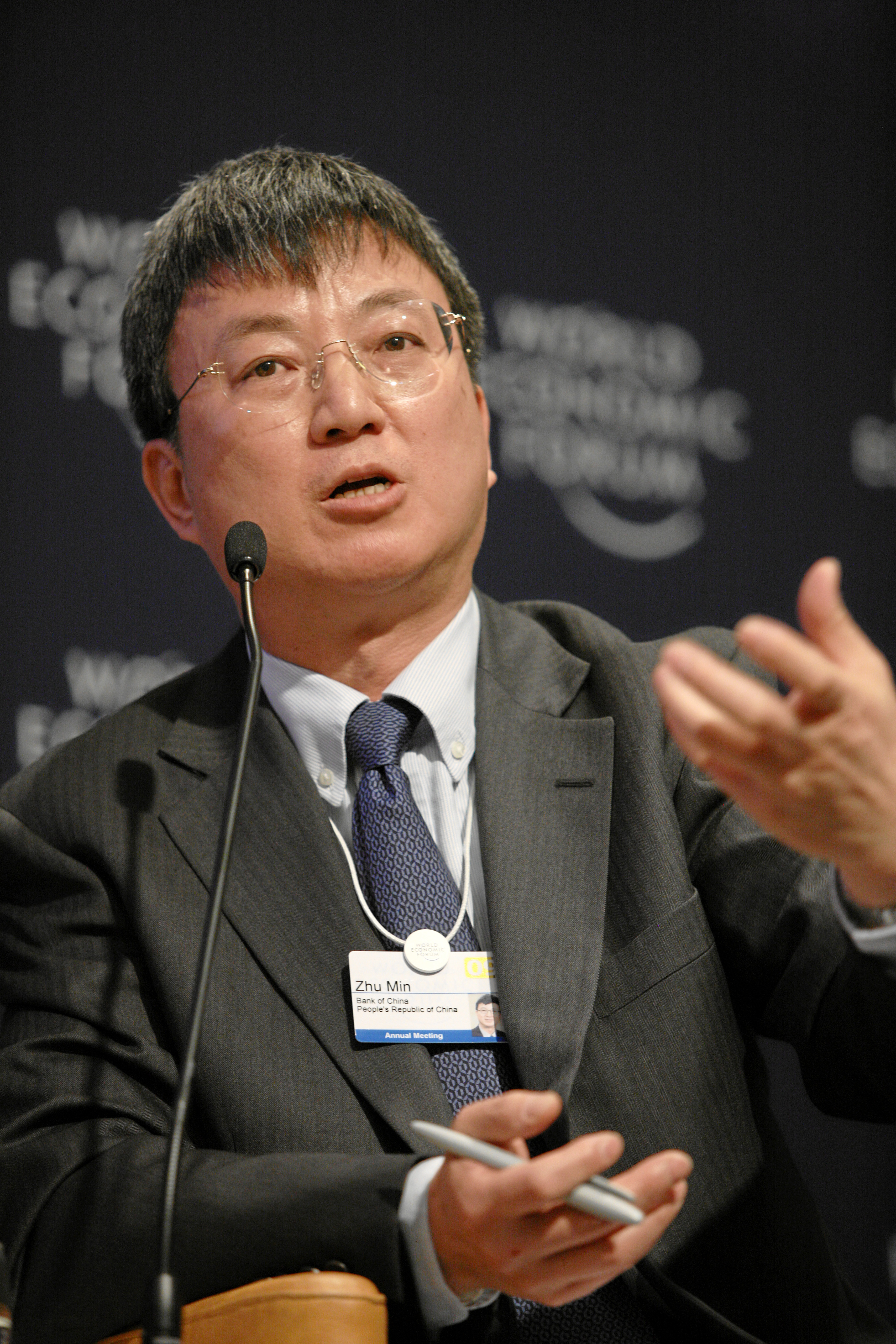 Zhu Min, Group Executive Vice President, Bank of China, People's Republic of China, captured during the session 'The New Boundaries of Financial Governance' at the Annual Meeting 2009 of the World Economic Forum in Davos, Switzerland, January 28, 2009.